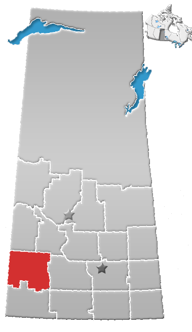 Saskatchewan census area No. 08